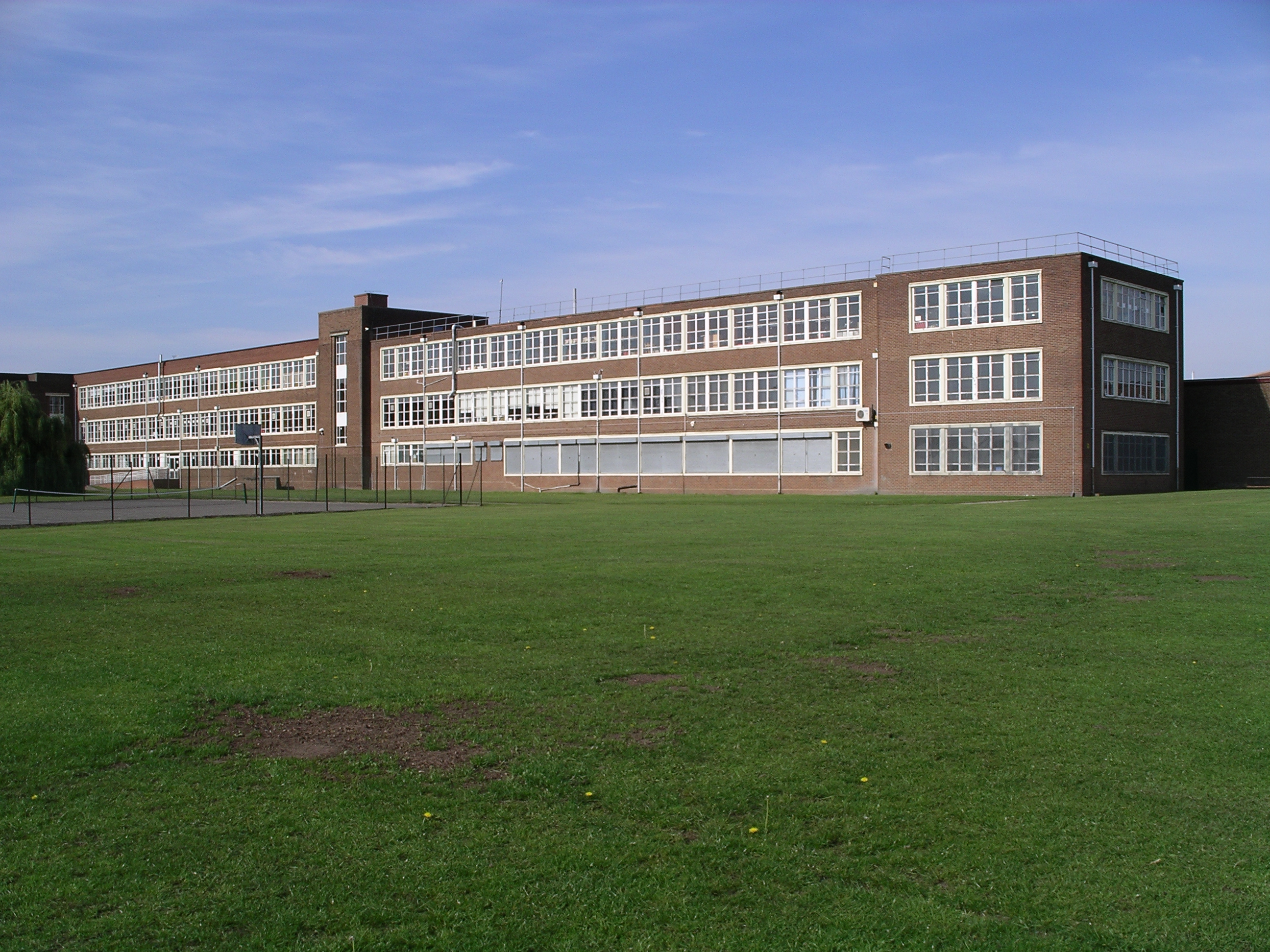 Nicholas Chamberlaine Technology College, Bedworth, Warwickshire, England.